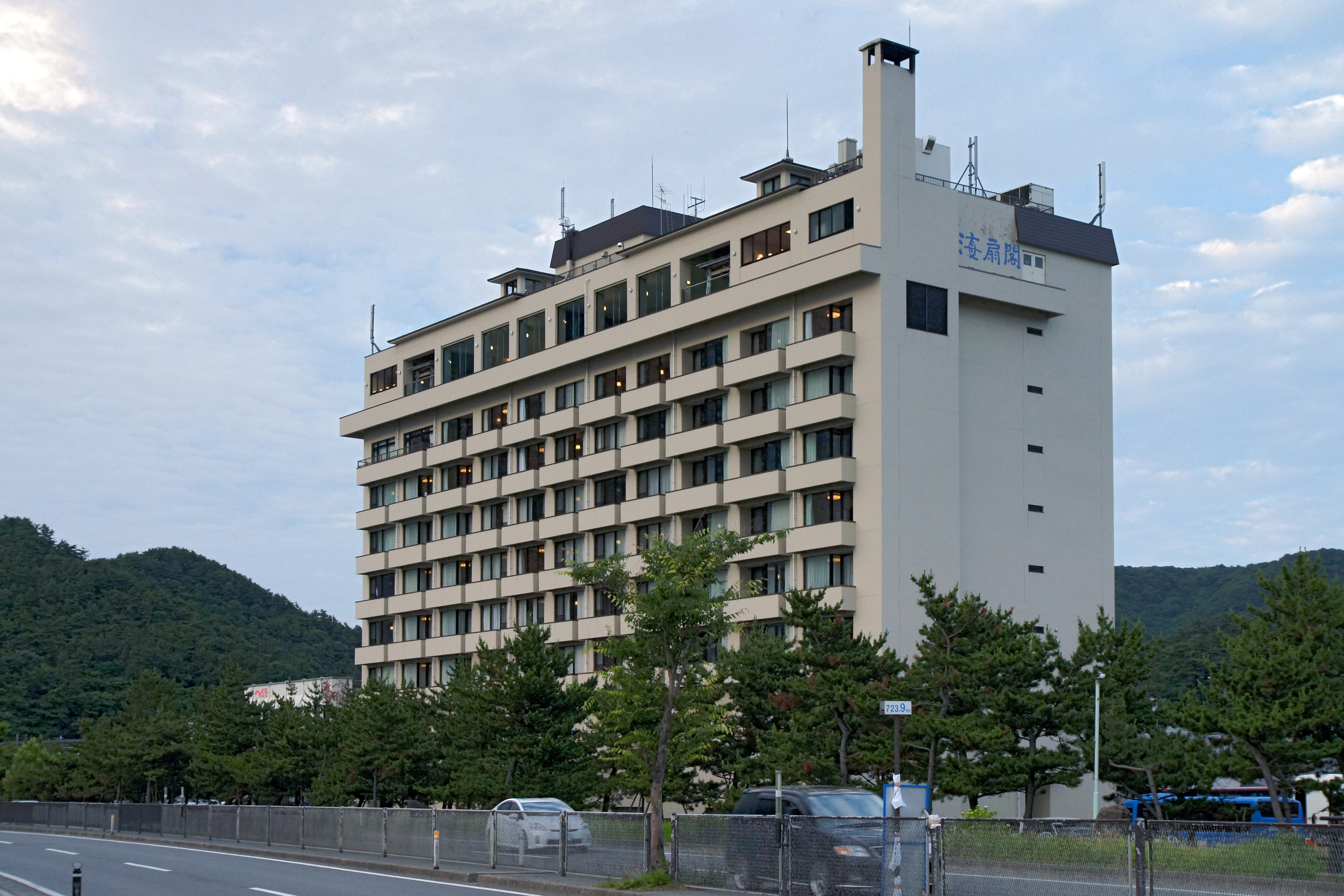 Hotel Kaisenkaku in Asamushi Onsen, Aomori, Aomori prefecture, Japan.